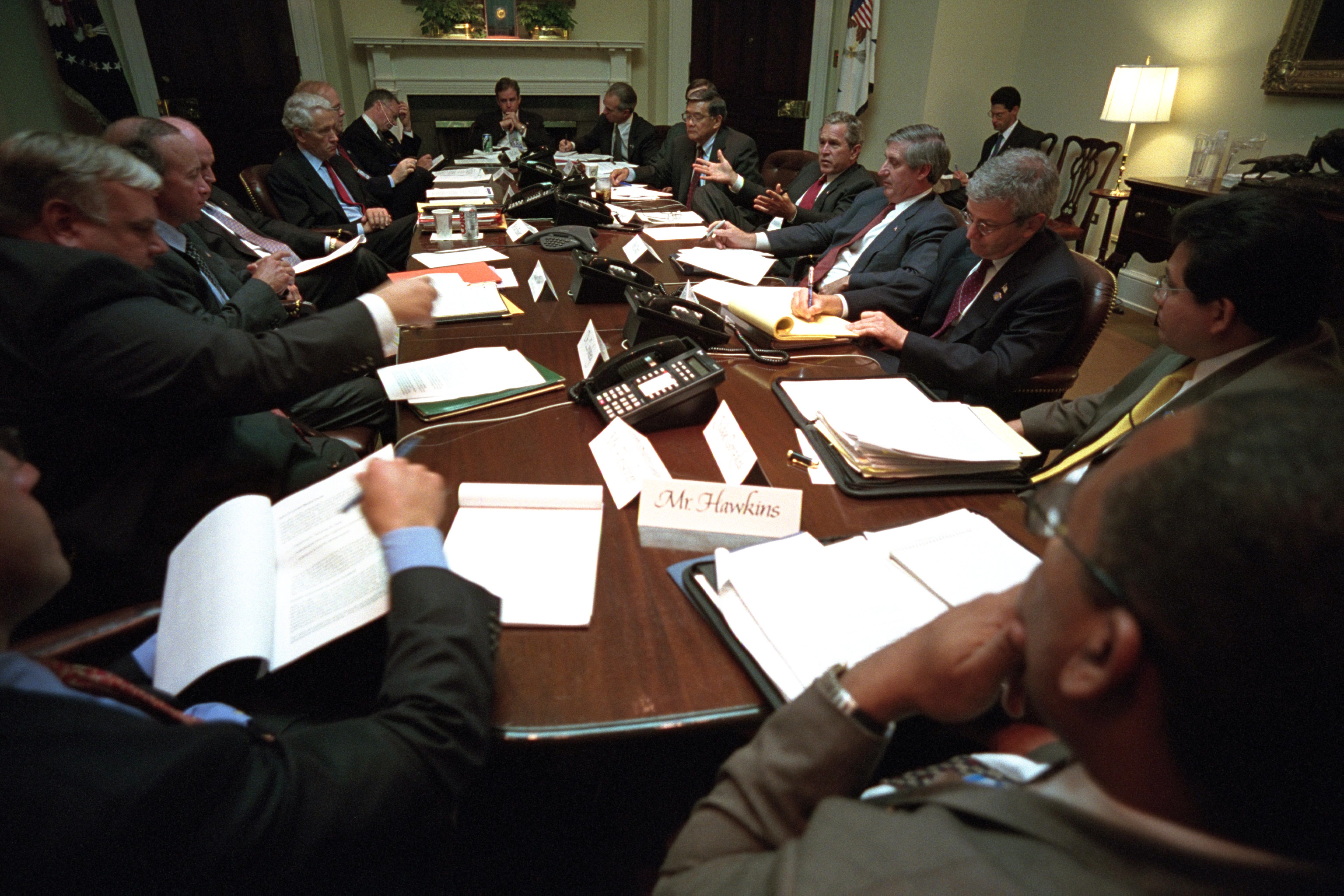 Original Caption: President George W. Bush meets with advisers in the Roosevelt Room of the White House to discuss the impact of the terrorist attacks on the airline and insurance industries. Participants include: Vice President Dick Cheney, Transportation Secretary Norman Mineta, Deputy Secretary Michael Jackson, Andy Card, Josh Bolten, Nick Calio, Glenn Hubbard, Mitch Daniels, Al Gonzales, Larry Lindsey, Ari Fleischer, Albert Hawkind, Karl Rove, Lewis Libby and others. U.S. National Archives’ Local Identifier: P7478-08 Created By: President (2001-2009 : Bush). Office of Management and Administration. Office of White House Management. Photography Office. (01/20/2001 - 01/20/2009) From: Photographs Related to the George W. Bush Administration, compiled 01/20/2001 - 01/20/2009 Production Dates: 09/17/2001 Persistent URL: Repository: George W. Bush Library (Lewisville, TX) Access Restrictions: Unrestricted Use Restrictions: Unrestricted